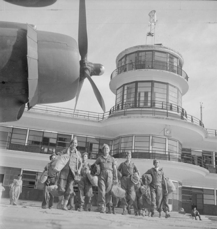 The first British prisoners of war to be evacuated from Singapore after liberation walk to their aircraft at Kallang Airport.